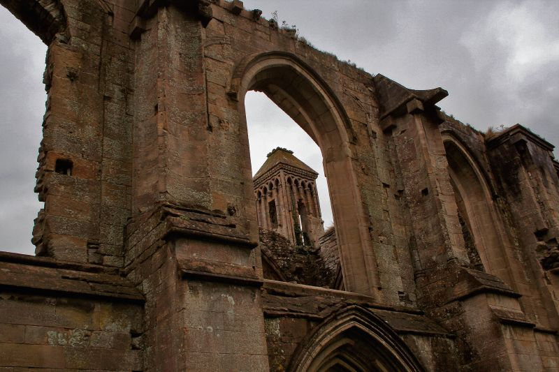 Glastonbury Abbey